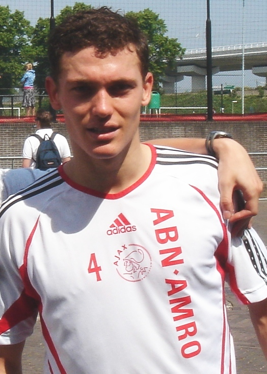 Thomas Vermaelen at Amsterdam Arena; returning from training